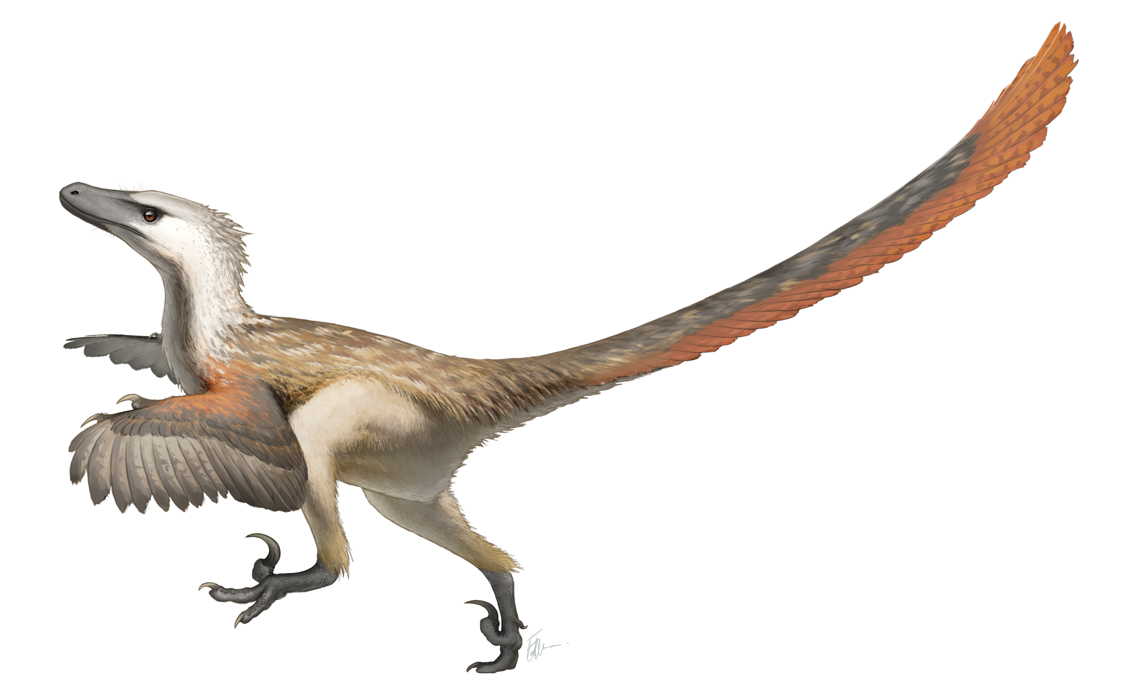 Artistic restoration of Velociraptor mongoliensis